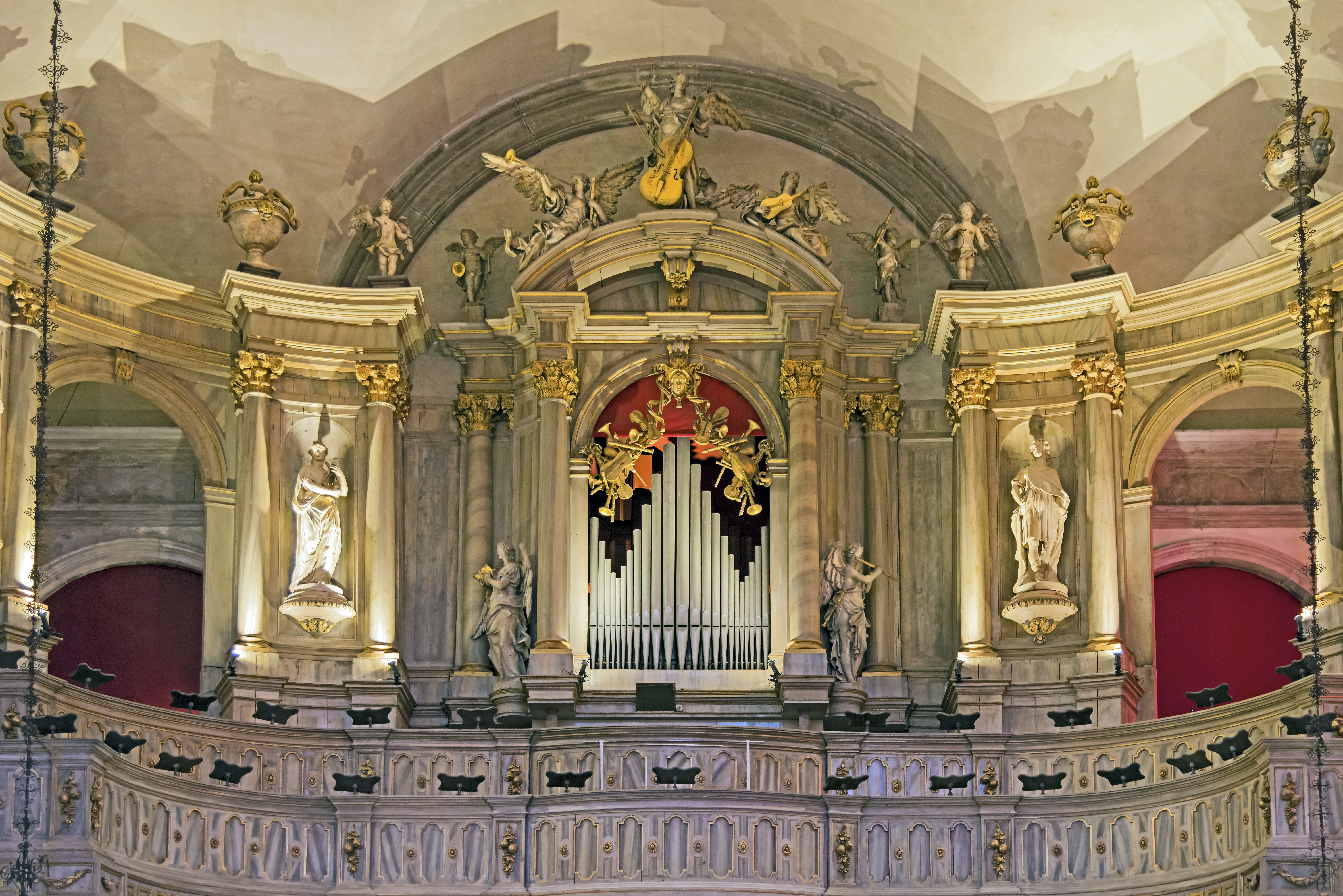 Church of San Rocco in Venice. Organ (1742) of Pietro Nachini, renewed in 1768 by Gaetano Callido, with choir decorated with wooden statues of Giovanni Marchiori.